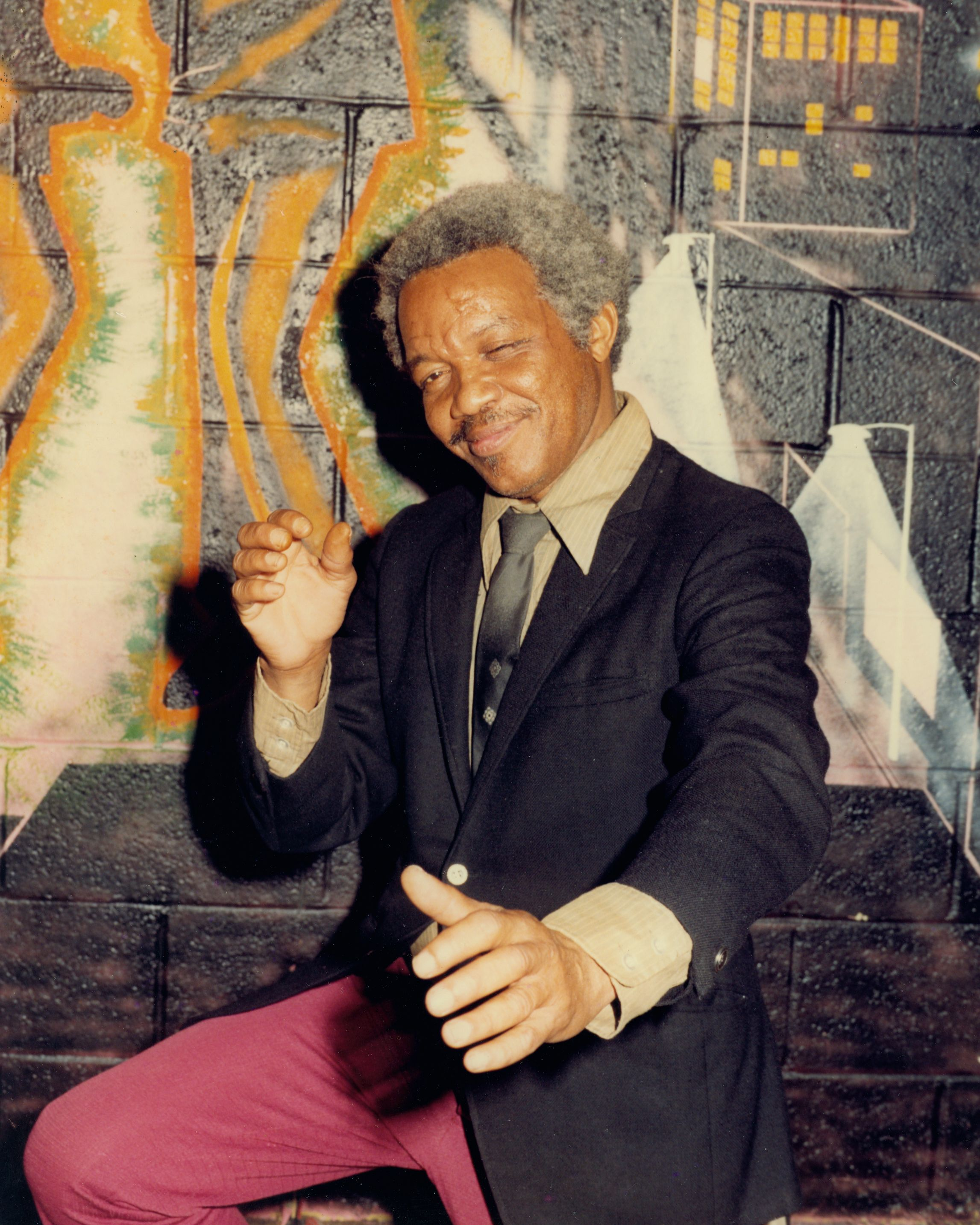 Pee Wee Moore posing in front of graffiti.